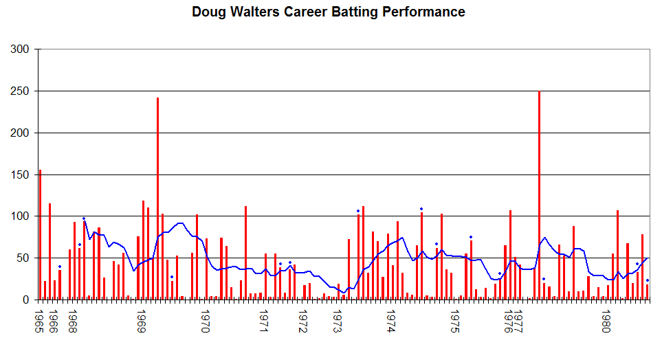 This graph details the Test Match performance of Doug Walters. It was created by Raven4x4x. The red bars indicate the player's test match innings, while the blue line shows the average of the ten most recent innings at that point. Note that this average cannot be calculated for the first nine innings. The blue dots indicate innings in which Walters finished not-out. This graph was generated with Microsoft Excel 2002, using data from Cricinfo and .au.